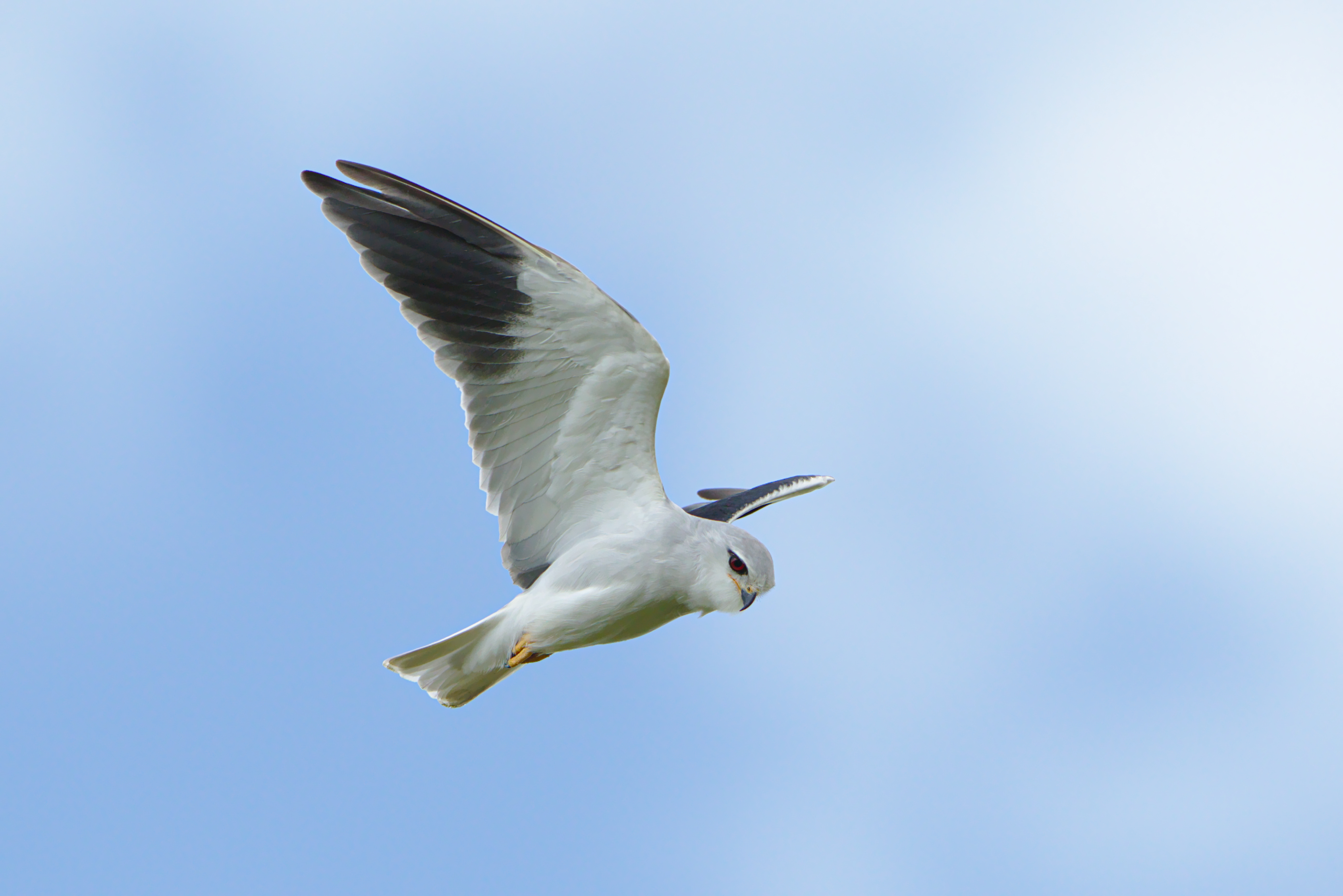 Black-winged (black-shouldered) kite, Elanus caeruleus, at Marievale, Gauteng, South Africa